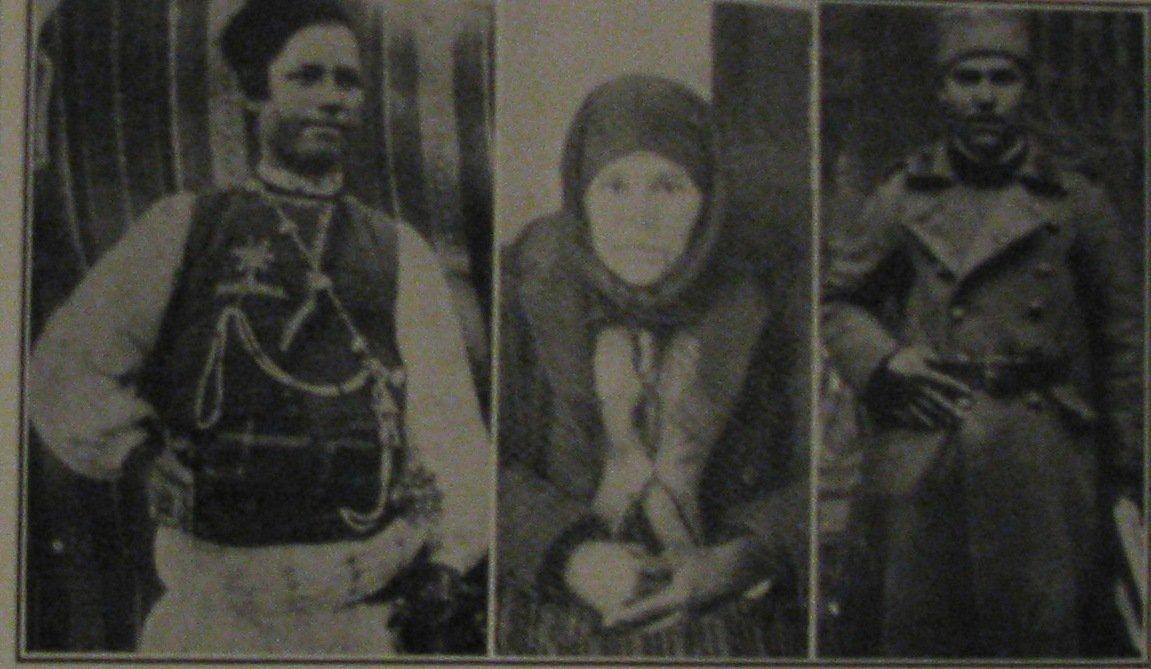 Kostovi family